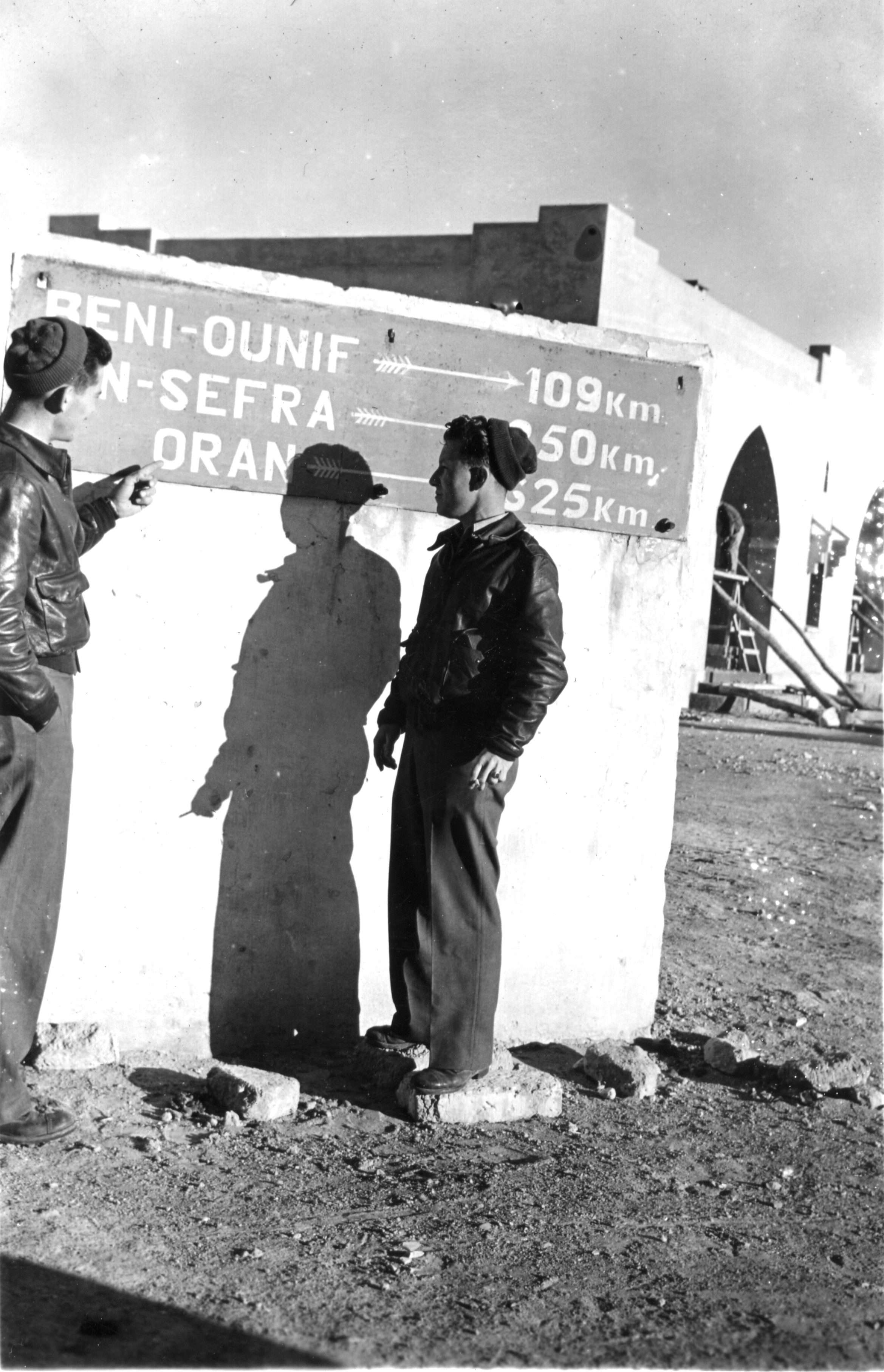 Probably Béchar (Colomb-Béchar), Algeria, c. 1943